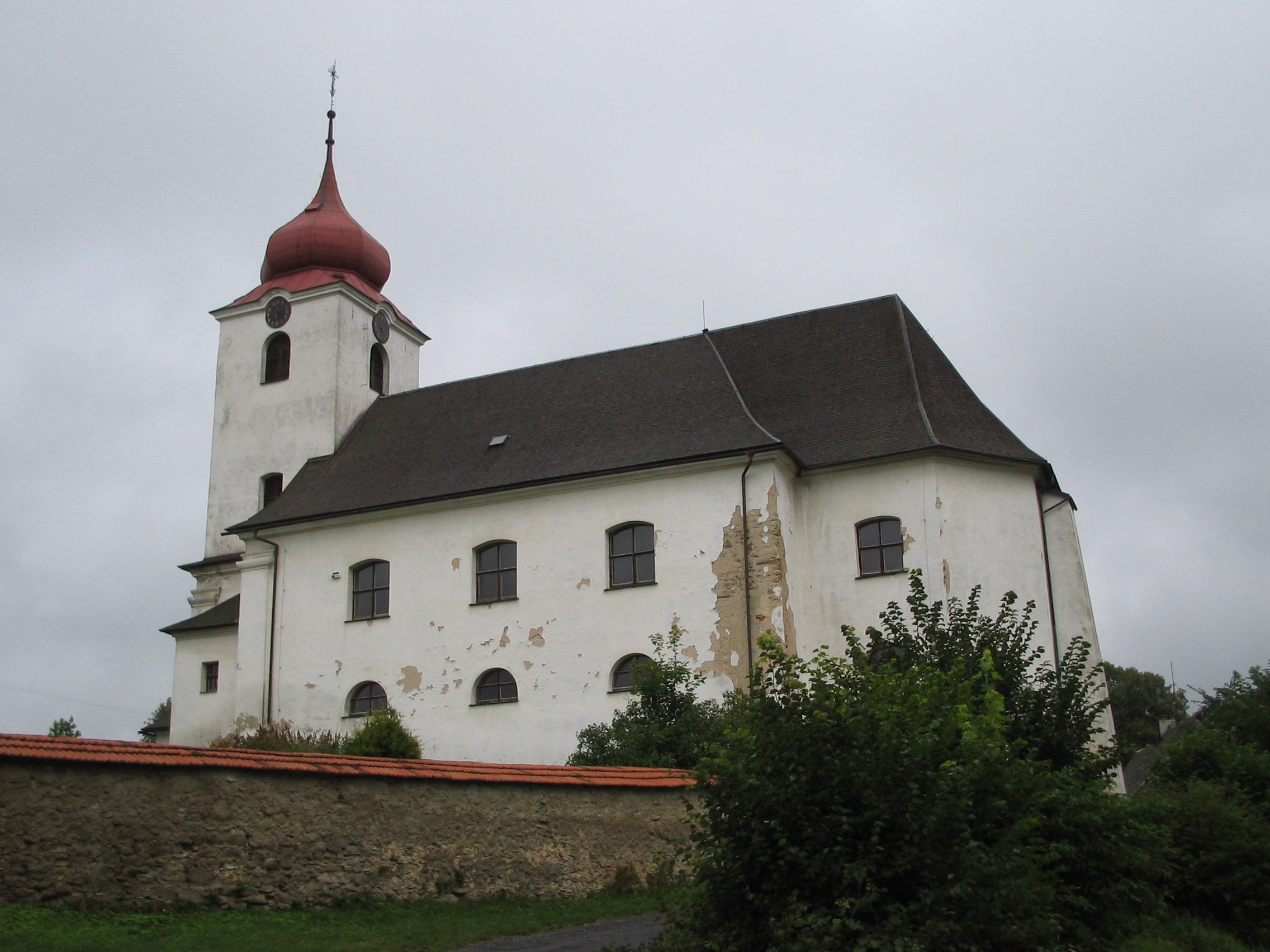 Church in Malá Morava